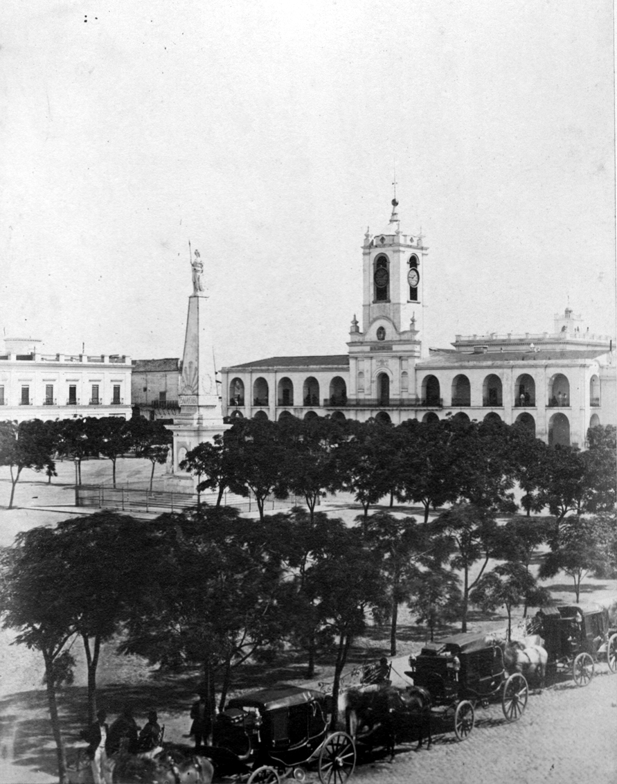 Cabildo of Buenos Aires. At front, the Plaza de Mayo.